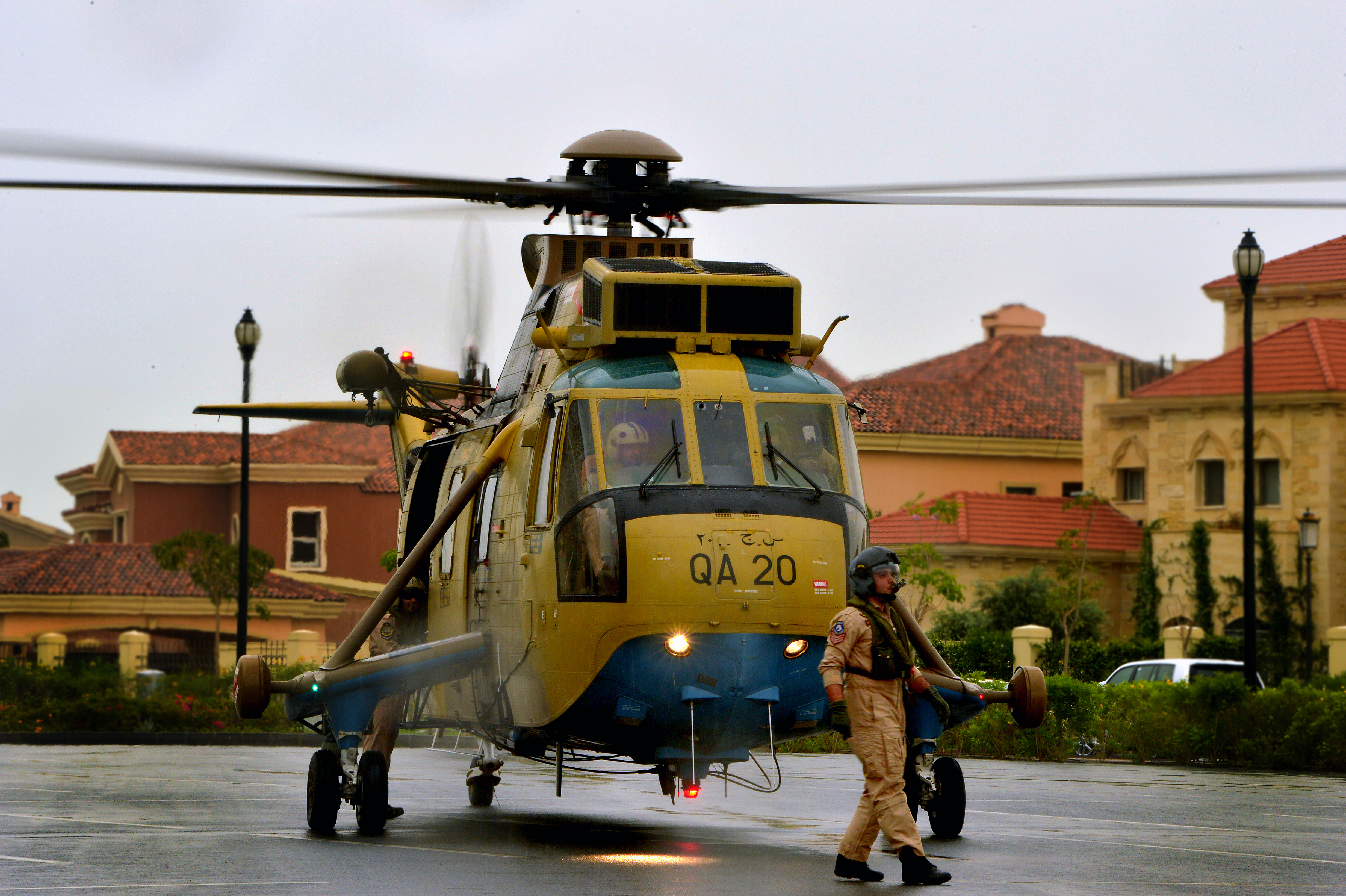 A Qatar armed forces helicopter pilot walks across a helicopter landing pad to aid casualties of a simulated ballistic missile attack during an exercise scenario in Doha, Qatar, April 30. In this particular scenario of Exercise Eagle Resolve 2013, emergency responders from Qatar and the United Arab Emirates acted quickly as smoke bombs and fake grenades produced explosion sounds simulating a ballistic missile strike, resulting in a chemical and biological outbreak and mass casualties. (U.S. Air Force photo by Staff Sgt. Kenny Holston/Released)